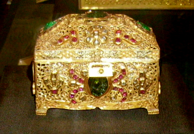 Inside Topkapi Palace (2842054895) crop